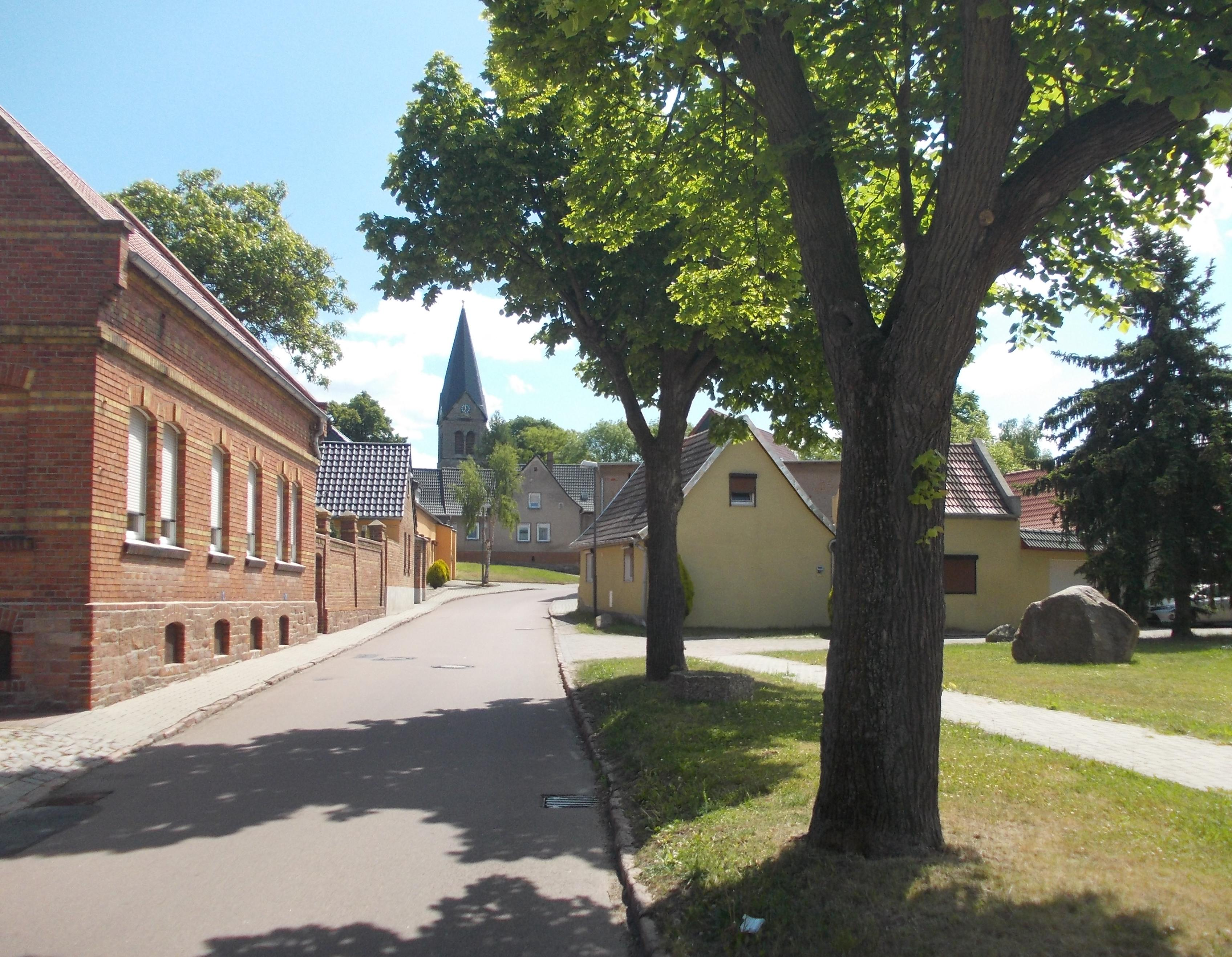 Preusslitzer Hauptstrasse in Preusslitz (Bernburg, district: Salzlandkreis, Saxony-Anhalt)